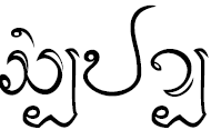 Lanna script – Sop Prap is a district (amphoe) in the southern part of Lampang Province, northern Thailand.